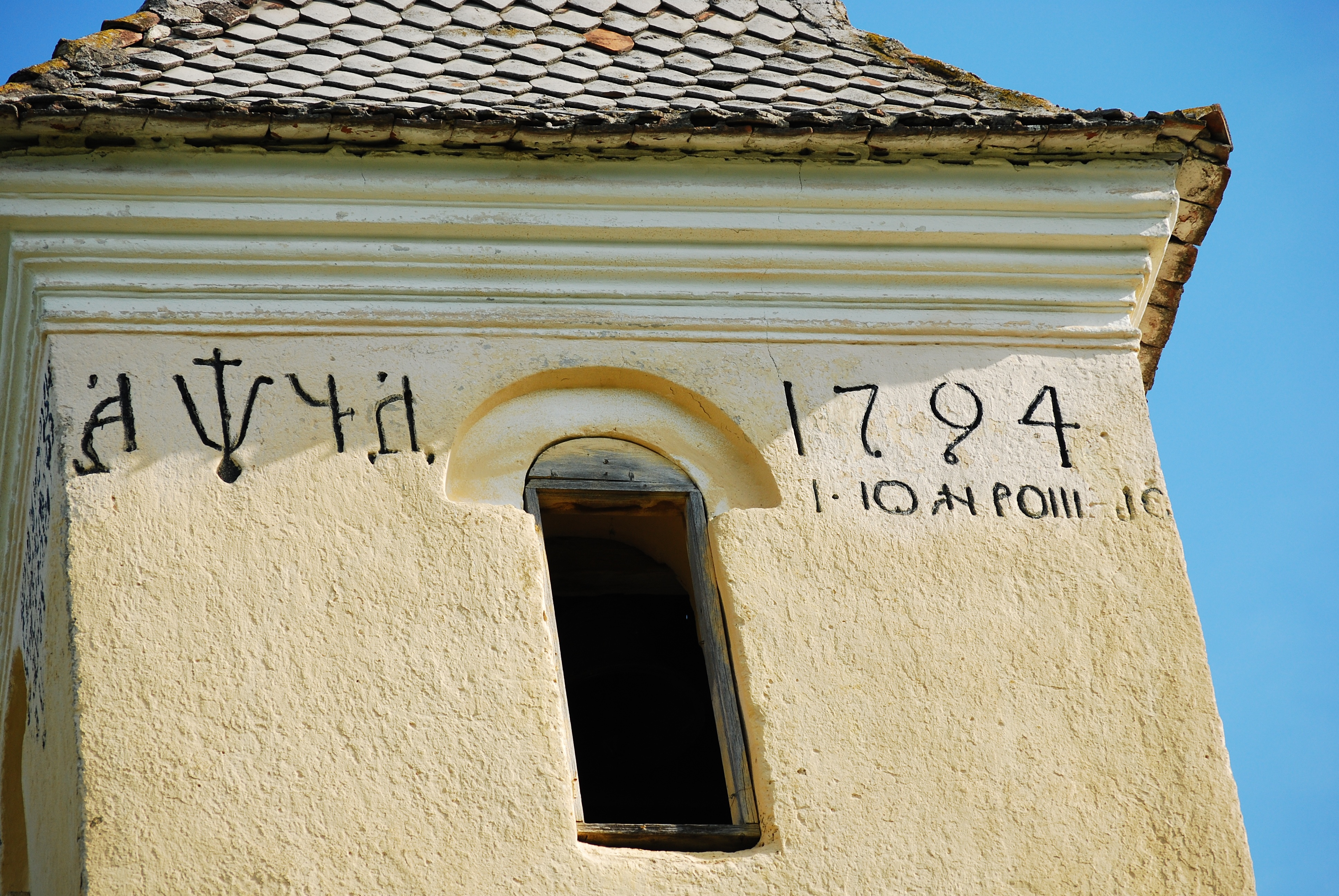 Cuciulata village, Romania